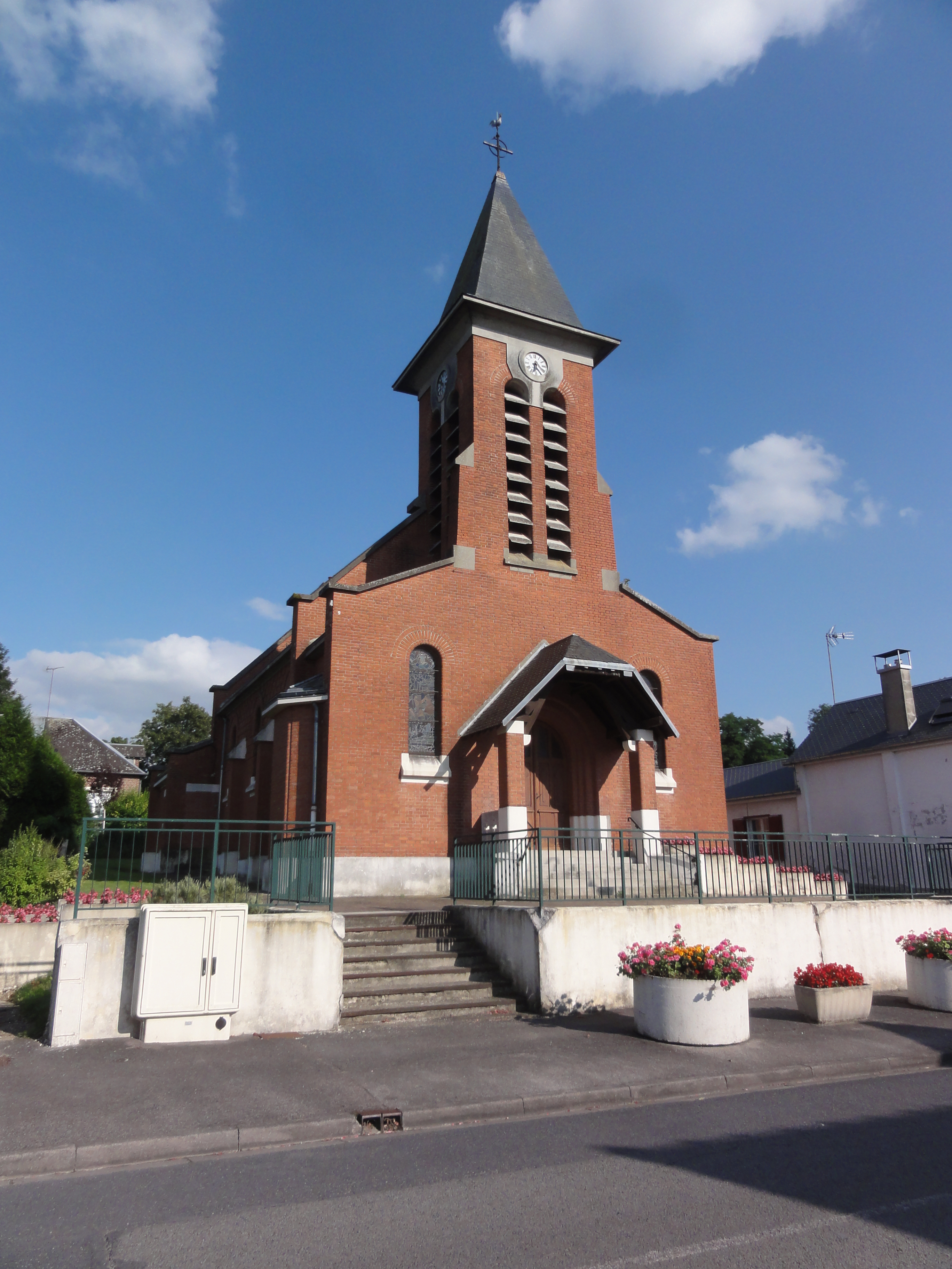 Rouvroy (Aisne) église